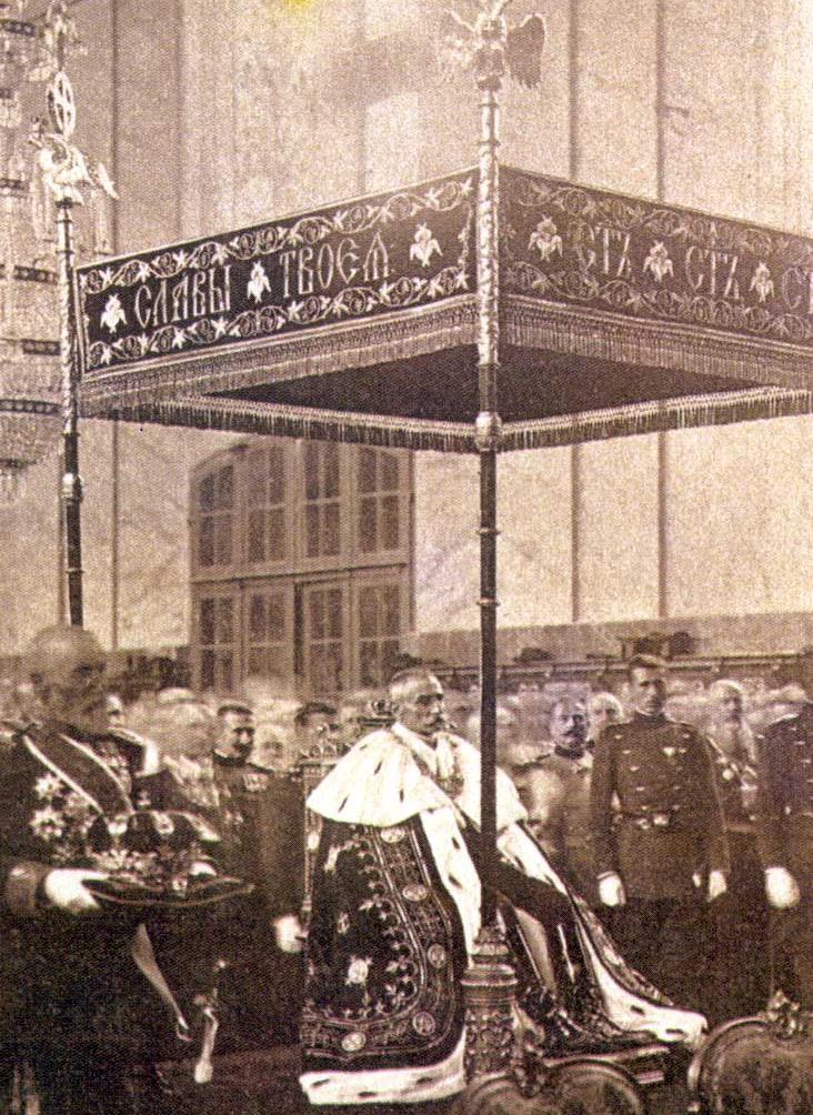 King Petr I Karađorđević after his coronation.